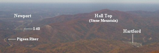 Eastern Cocke County, Tennessee, looking north from the summit of Mount Cammerer (el. 4,928 feet/1,502 meters).